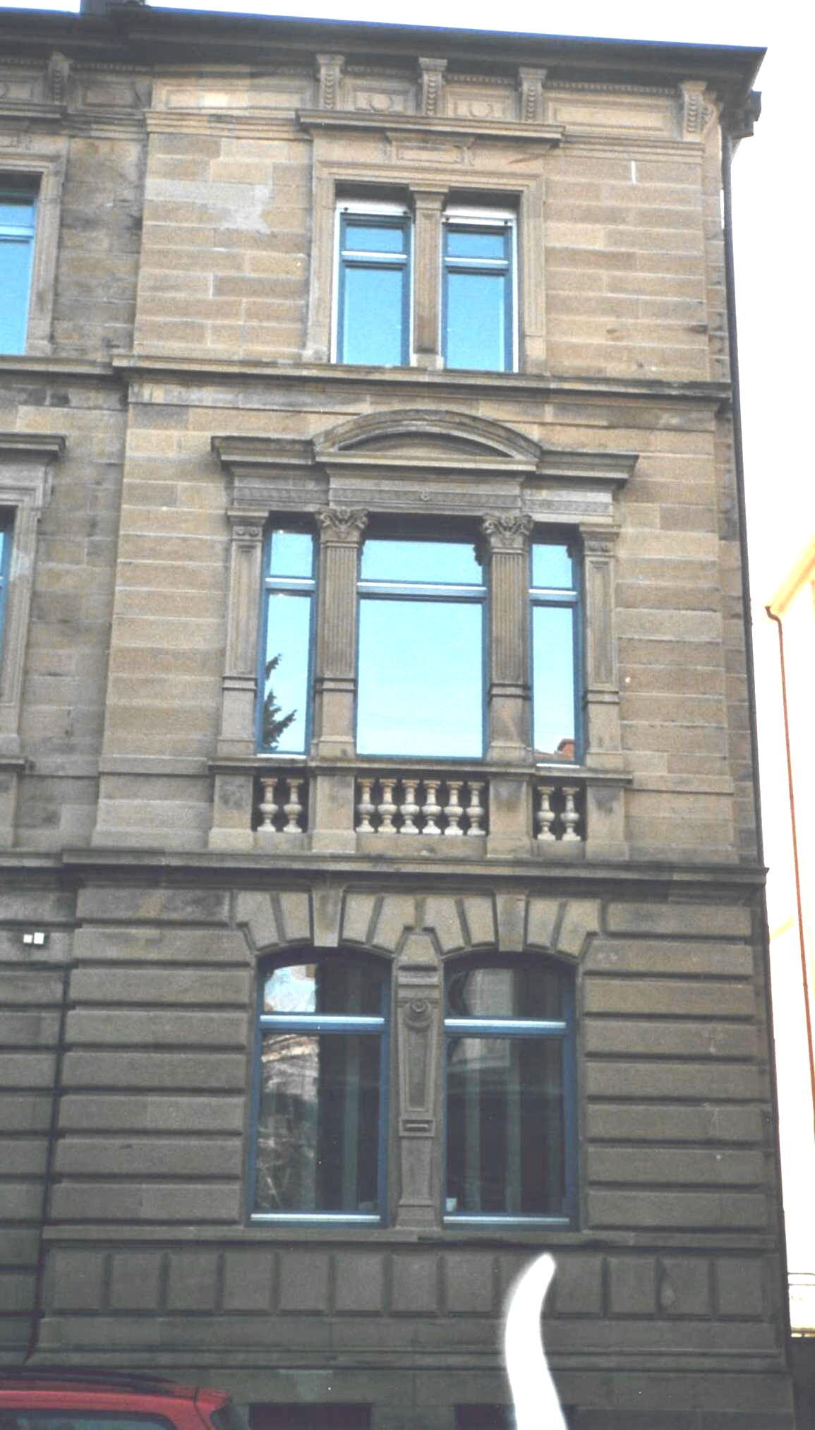 Heilbronn